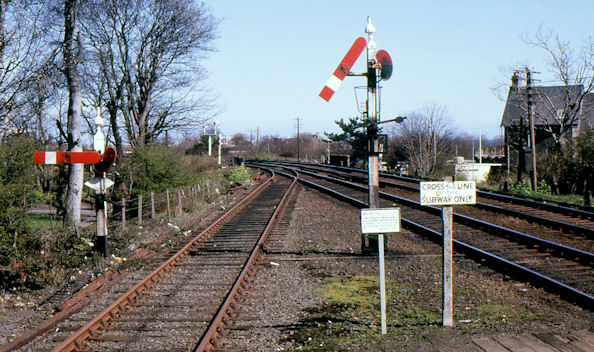 Somersault signals, Carrickfergus railway station. Shows the arm's central pivot, the defining feature of the somersault signal.